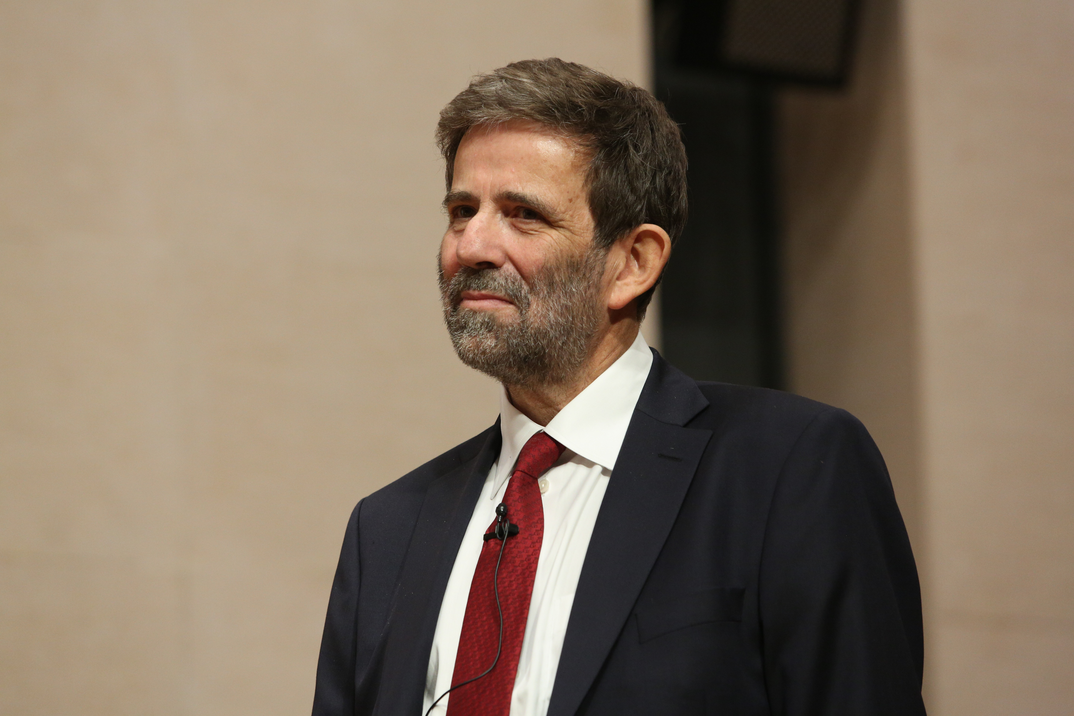 Thomas Sterner participating in a conference